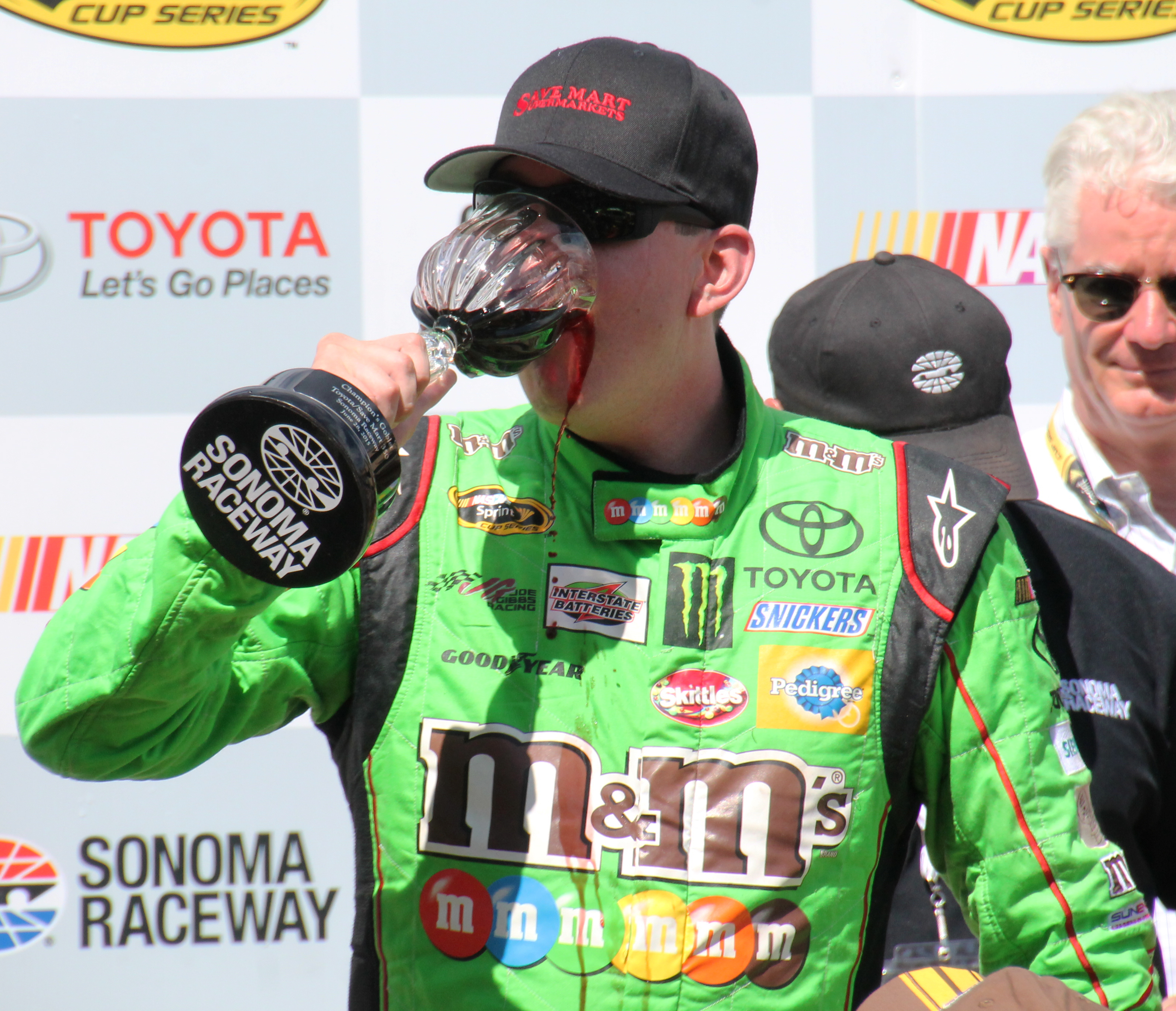 Kyle Busch celebrates winning the 2015 Toyota/Save Mart 350 at Sonoma Raceway, Sonoma, California.